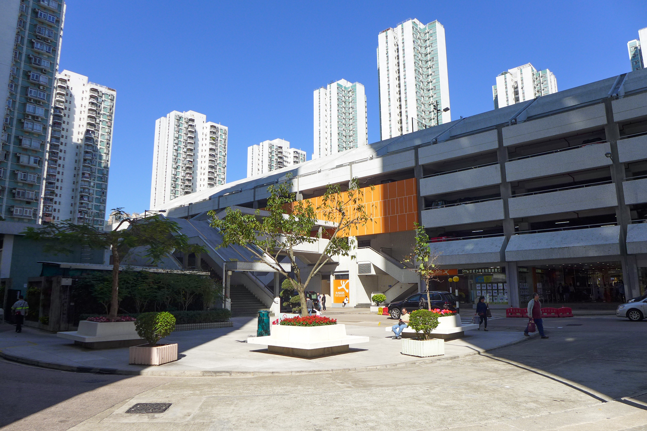 Fortune City One Plus